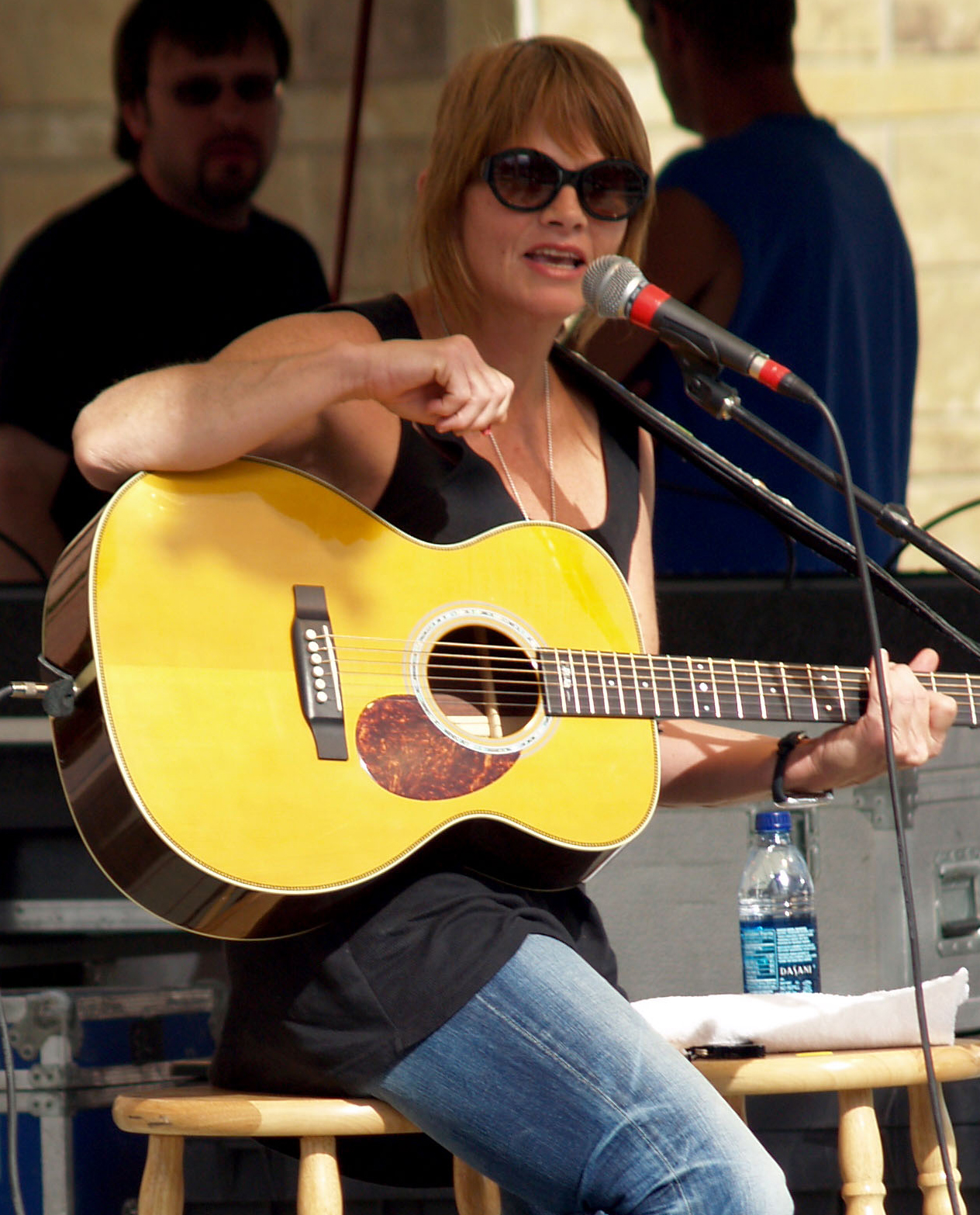 Shawn Colvin playing at the Taste of Fort Collins in Colorado.